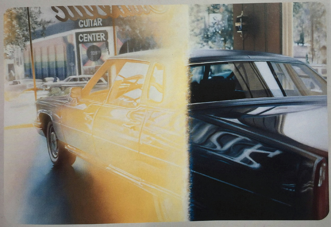 acrylic paint on canvas 5' x 7' created 1976